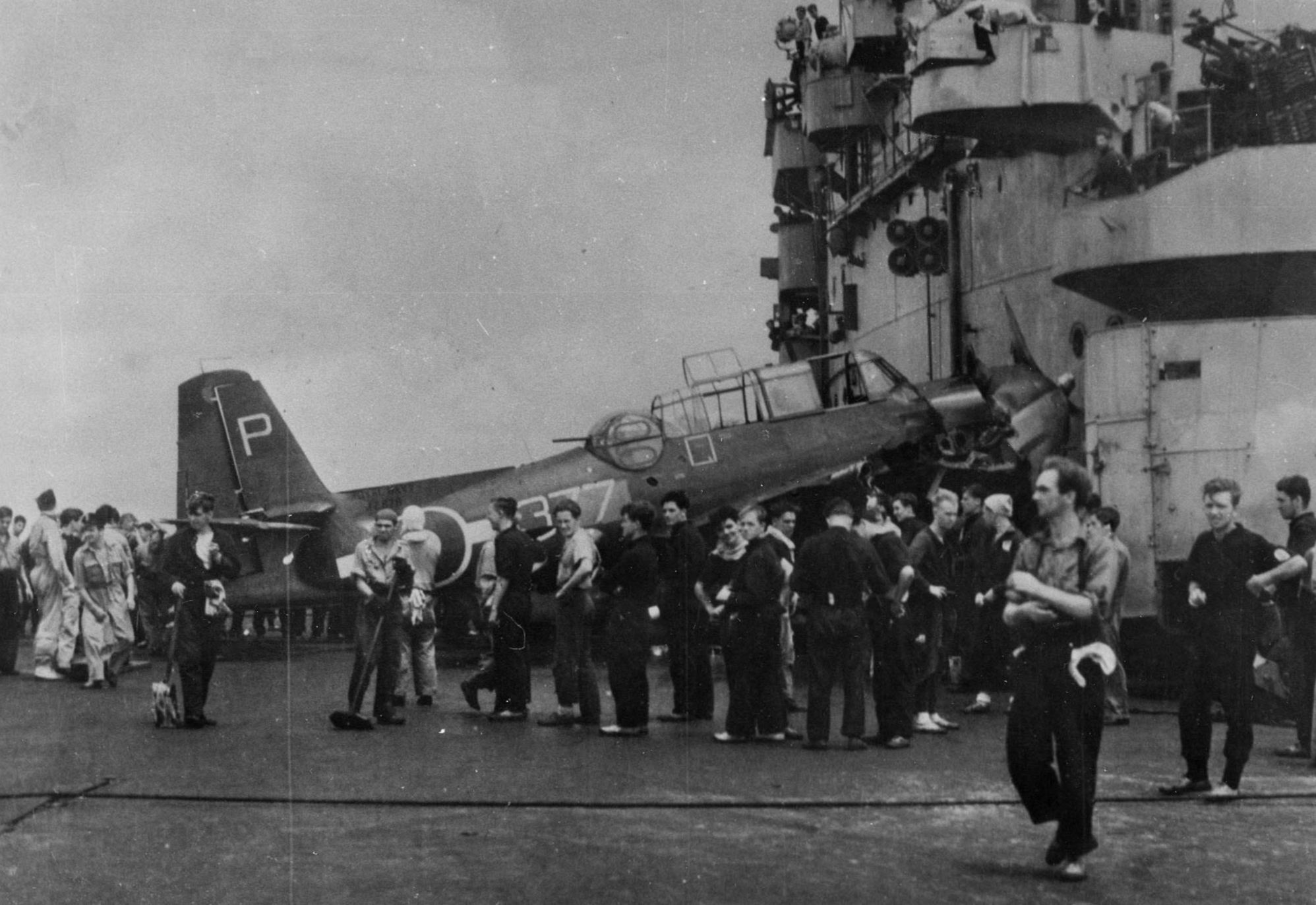 A Royal Navy Grumman Avenger Mk.II (serial JZ 578) from 849 Naval Air Squadron, after crashing on the aircraft carrier HMS Victorious (R38), in 1945.